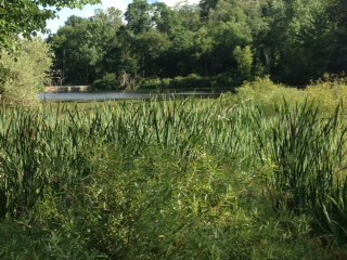 An image of Chicago Bog